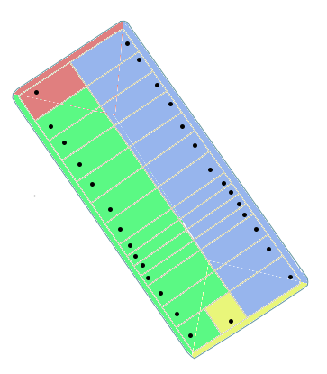 Faces of a cityblocks, for ZIP code at Brazil; lots and points